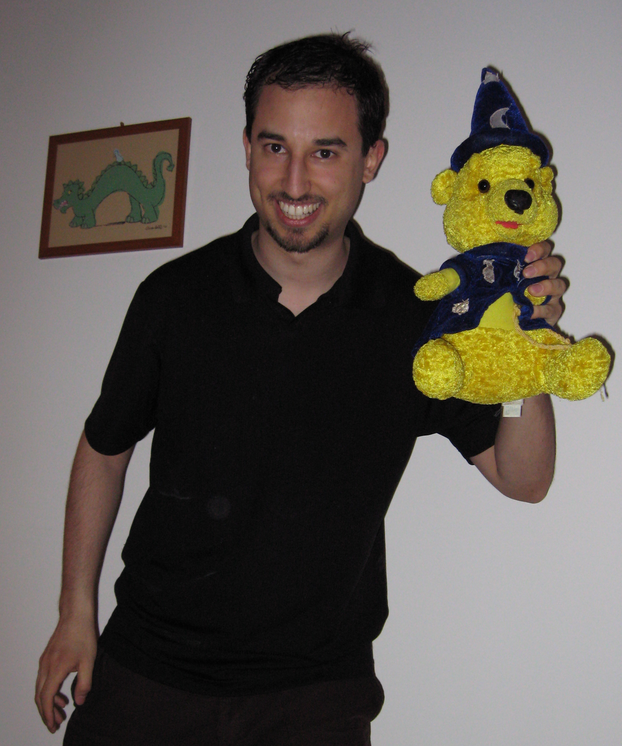 Author: Seidenstud (original work). Date created: March 6, 2007. Photo of musician soce, the elemental wizard